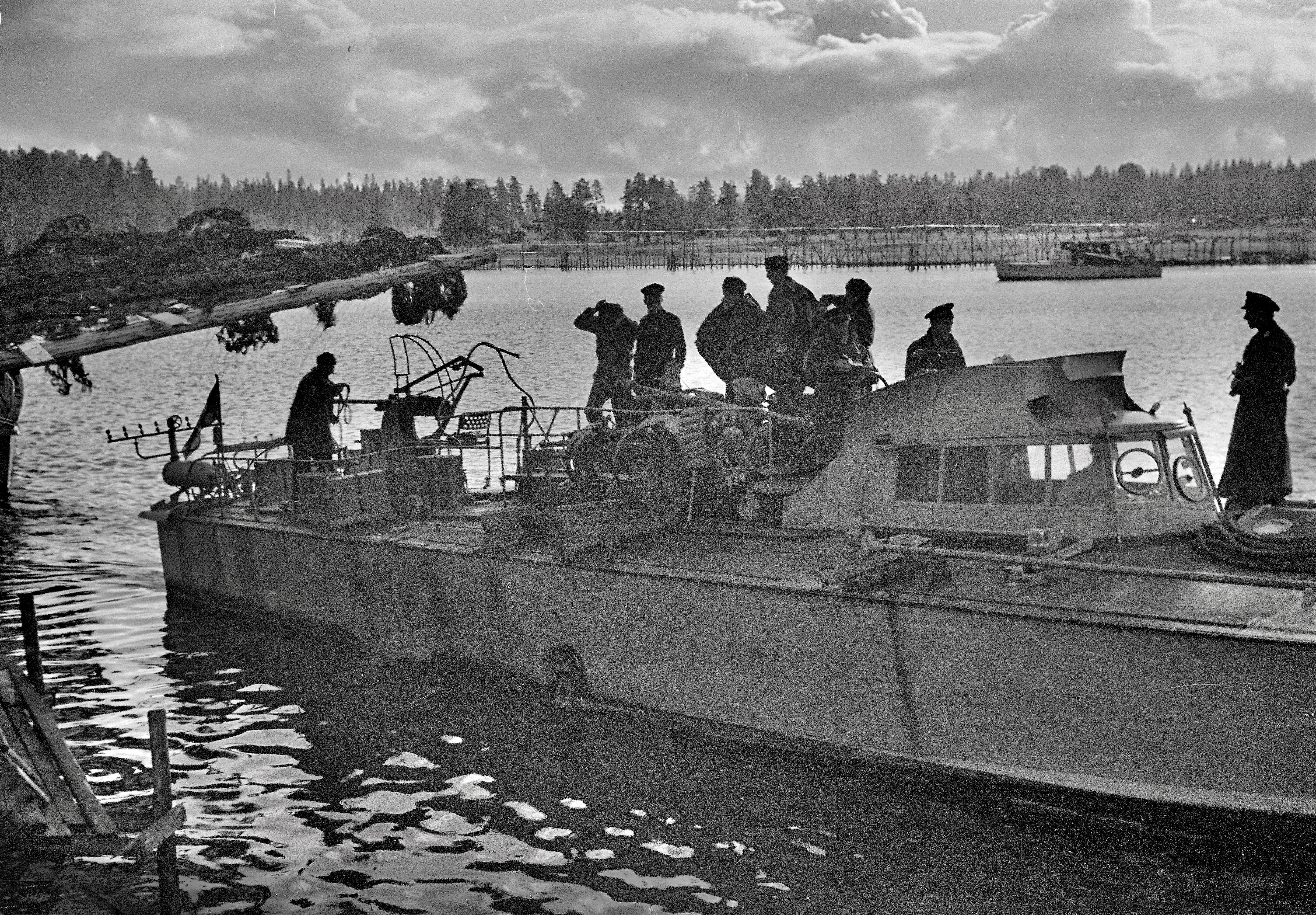 MAS leaves the war game, 1942.